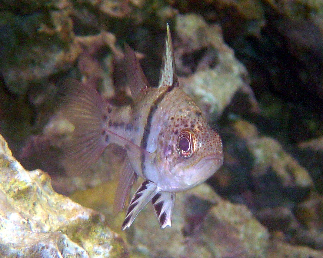 An orbicular cardinalfish (Sphaeramia orbicularis) as seen head-on Image ID: reef1389, NOAA's Coral Kingdom Collection Location: Palau